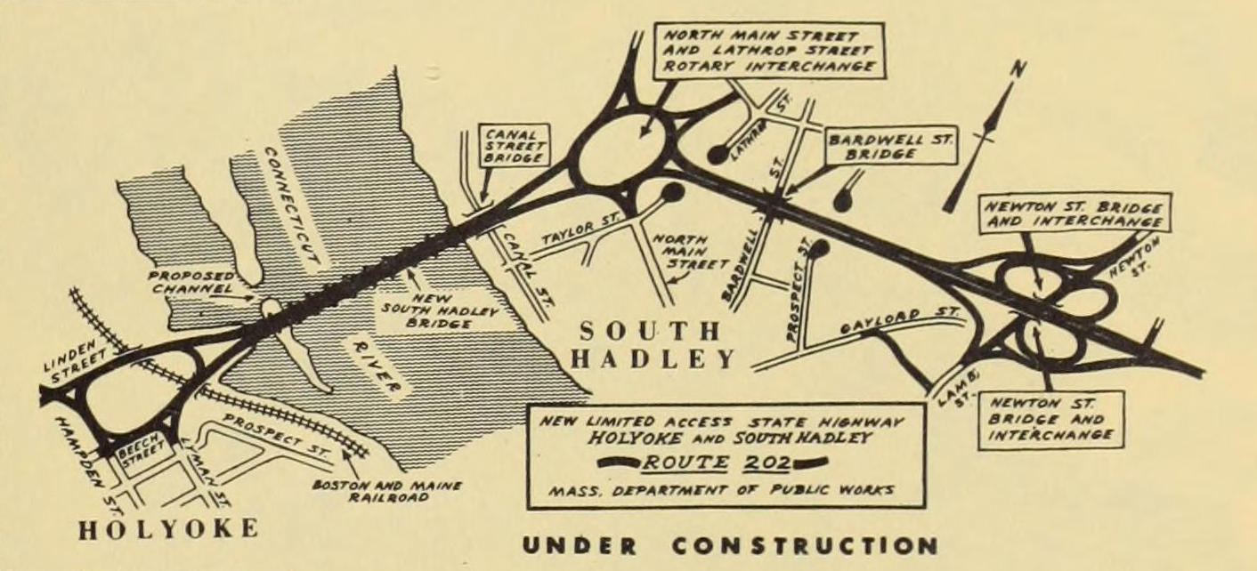 Map of the U.S. Route 202 South Hadley Falls Interchange Project; built in tandem with the Joseph E. Muller Bridge, the $3 million dollar ($26.8 million in 2019 USD) Holyoke and South Hadley project relieved traffic from the South Hadley Falls Bridge (now occupied by the Vietnam Memorial Bridge), and gave commuter and industrial traffic alternative access to the city.